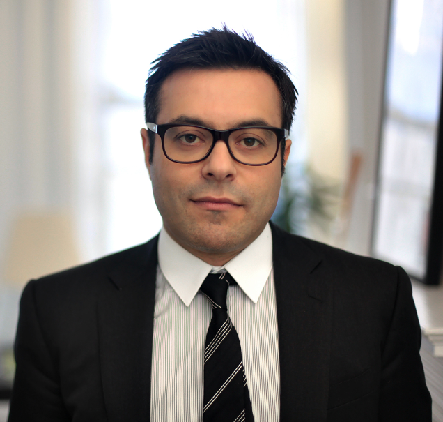 This file of the photo of Andrea Radrizzani, Group CEO of MP&Silva and will be used in his personal profile page.